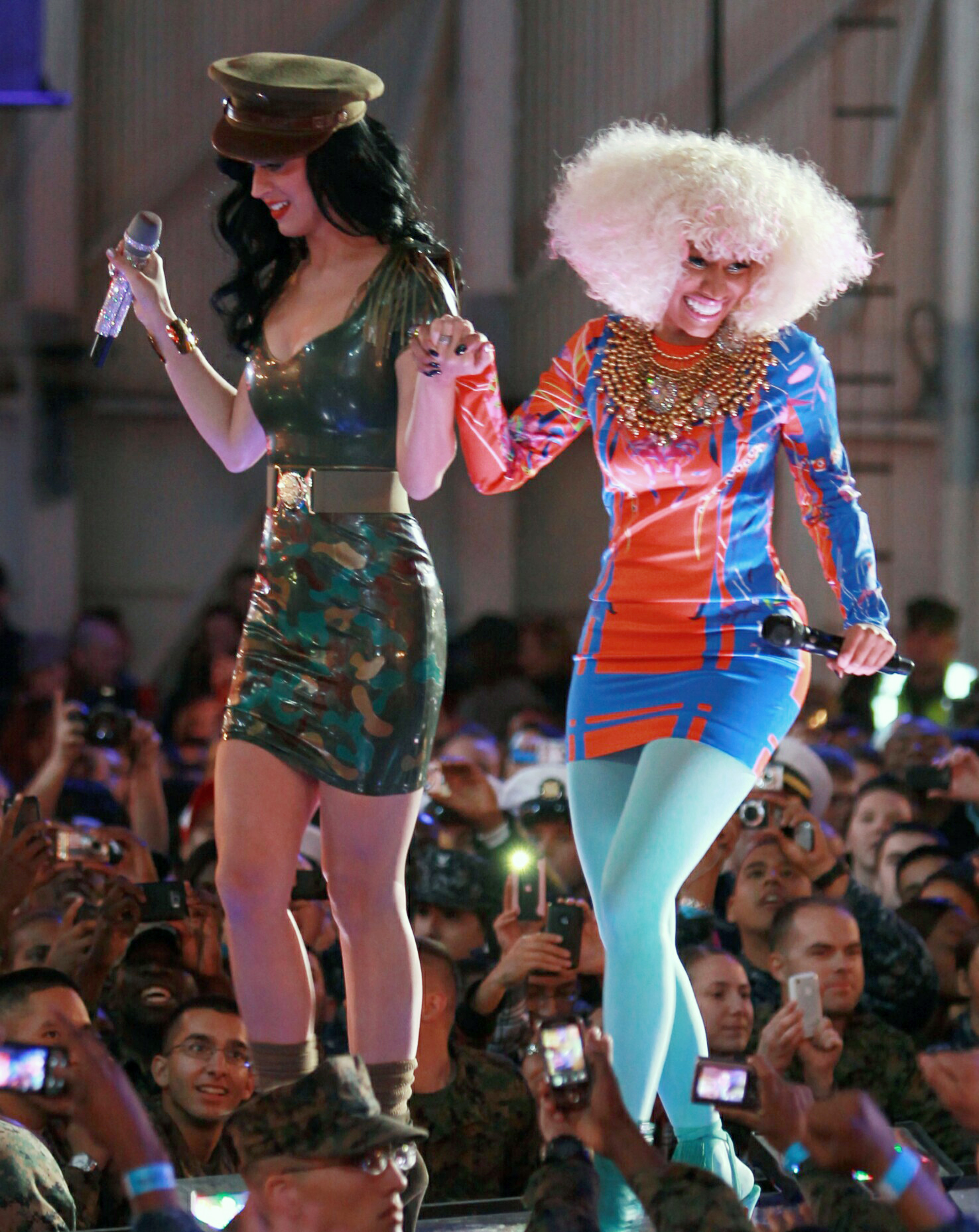 Katy Perry (left) and Nicki Minaj (right) performing for service members during the 2010 VH1 Divas Salute the Troops concert at Marine Corps Air Station Miramar, Dec. 3. Other performances included Heart, Keri Hilson, Sugarland, Grace Potter and the Nocturals, and Kathy Griffin.